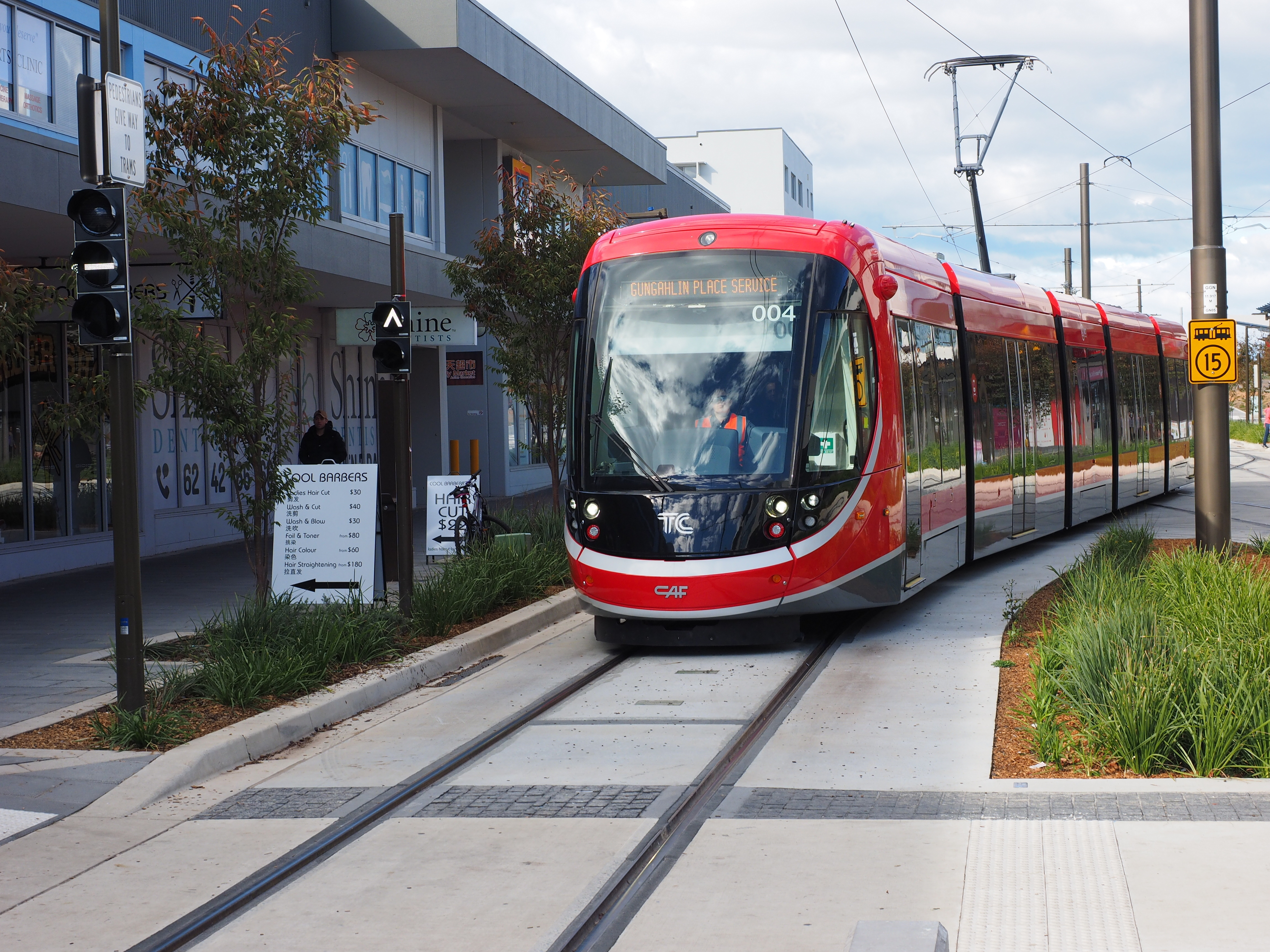 A light rail vehicle approaching Gungahlin Place terminus